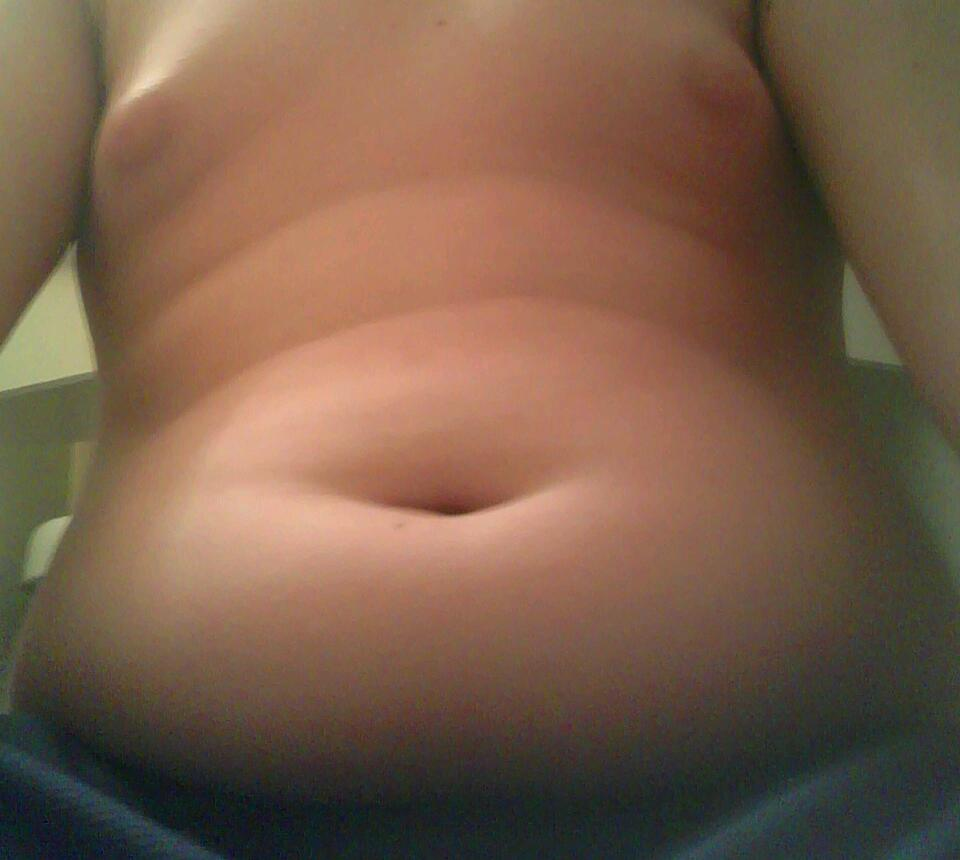 Excess adipose tissue around a teen male's mid-section.